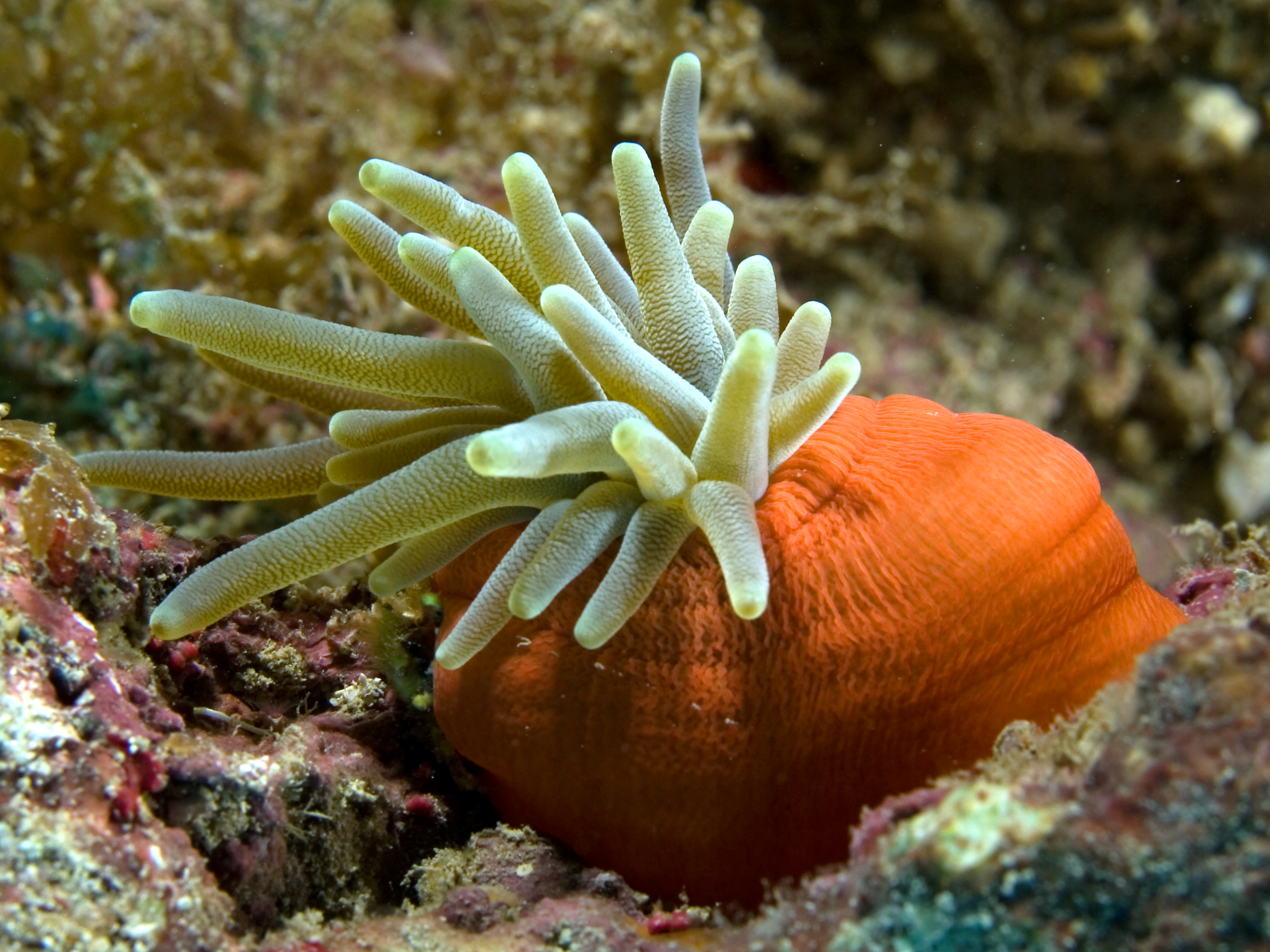 Condylactis gigantea (Giant Anemone) red base.